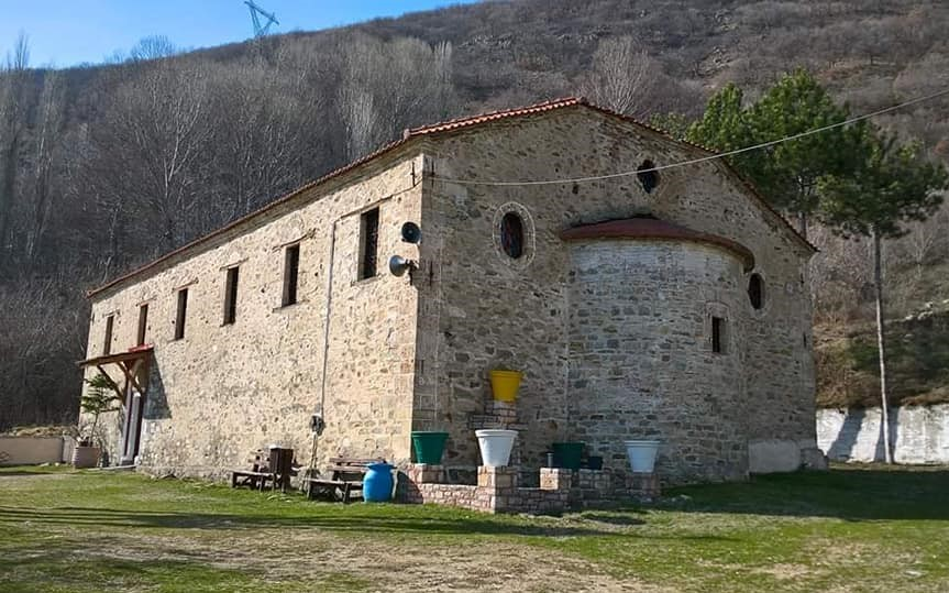 Holy Archangels Monastery in Aetos, Florina